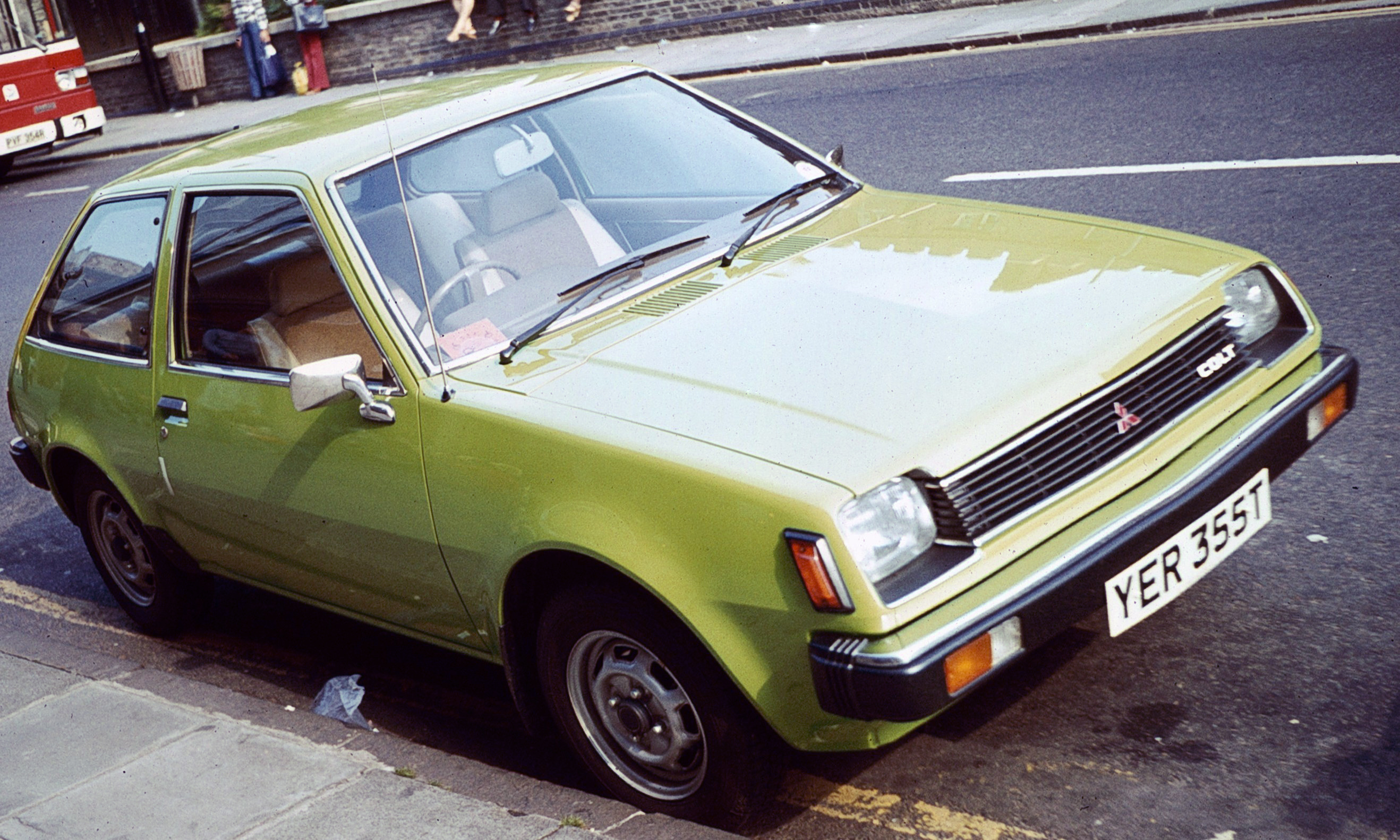 Mitsubishi Colt (small type: UK nomenclature) opposite Emma